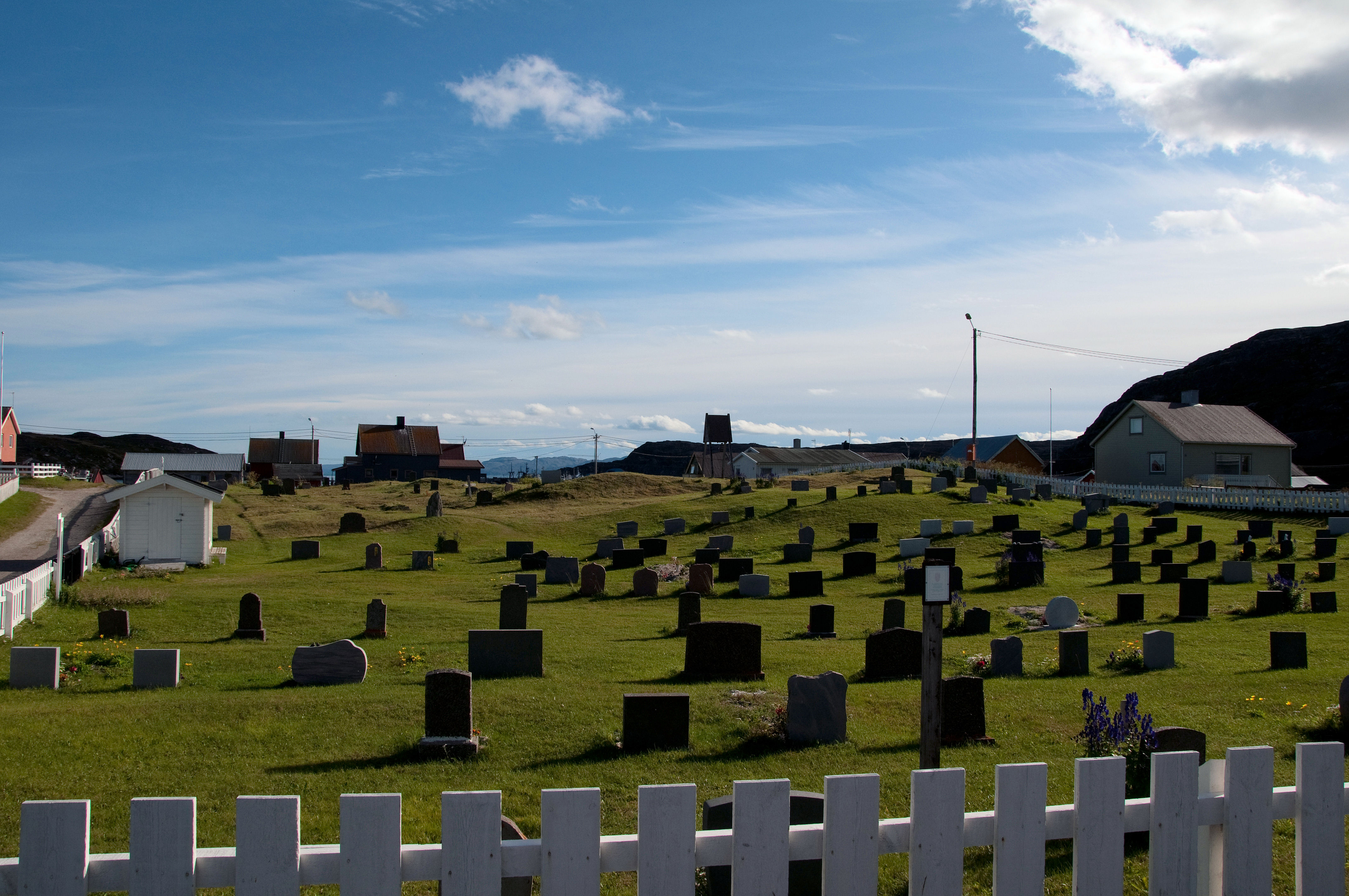 Bugøynes in Norway